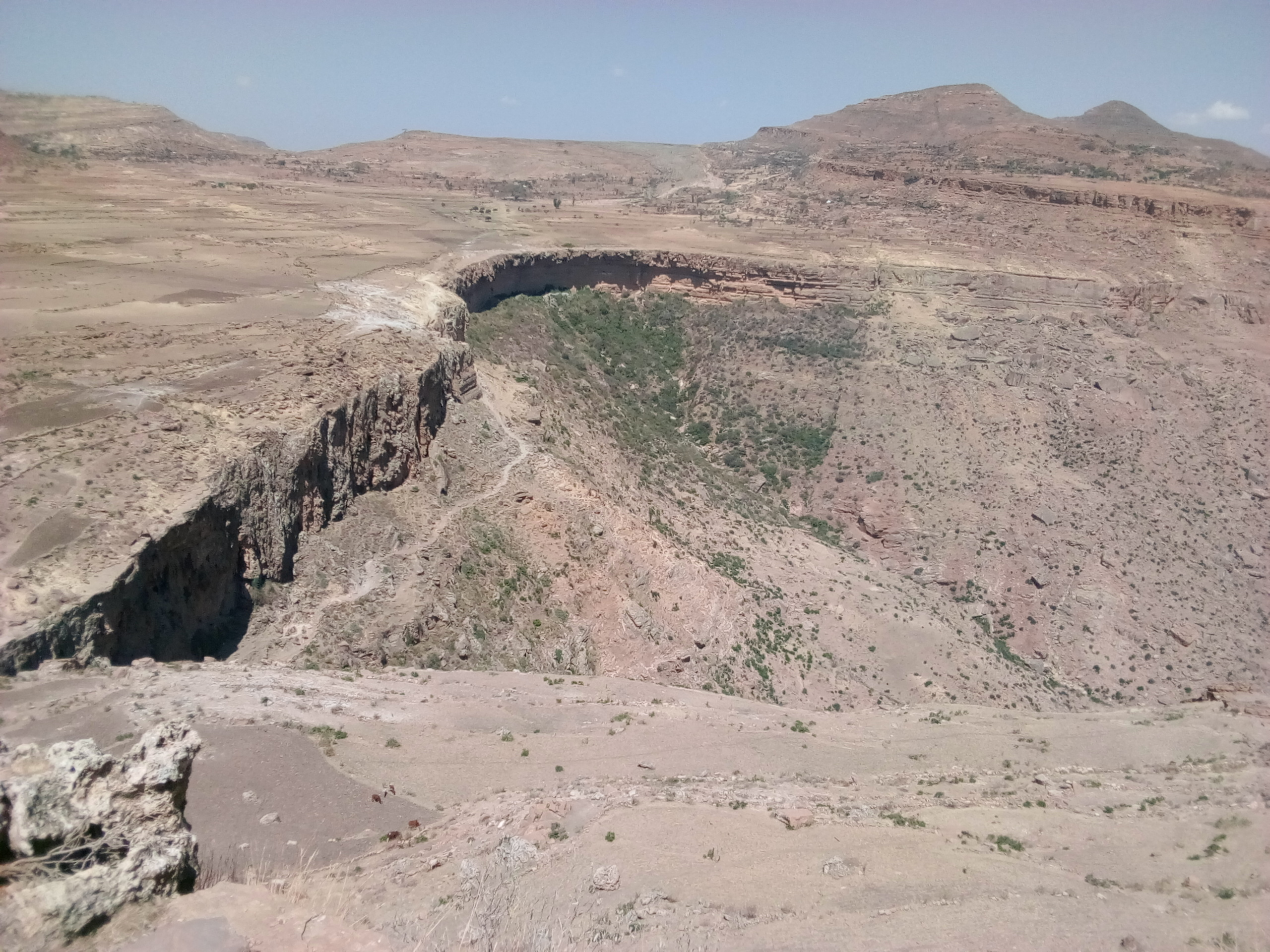 amphitheatre at head of Azef gorge